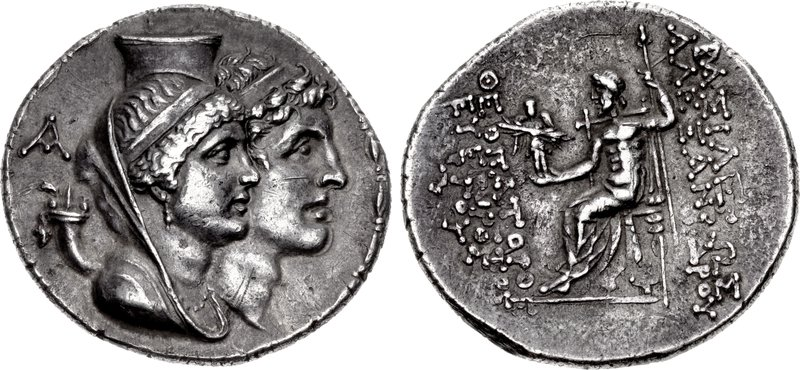 SELEUKID KINGS of SYRIA. Alexander I Balas, with Kleopatra Thea. 152-145 BC. AR Tetradrachm (28mm, 17.04 g, 12h). Marriage Commemorative. Ptolemaïs (Ake) mint. Struck circa 150 BC. Jugate busts of Kleopatra Thea and Alexander I right; Kleopatra is veiled, diademed, and wearing kalathos with a cornucopia behind her shoulder; Alexander is diademed; A to left / [BA]ΣIΛEΩ[Σ AΛ]EΞANΔPOY ΘEOΠATOPOΣ EYEPΓETOY, Zeus Nikephoros enthroned left, holding scepter with his left hand and Nike facing in his right; Nike holds a thunderbolt across her body. SC 1841; Houghton, Double 2 (A1/P1 – this coin); HGC 9, 880. Good VF, toned, light marks and scratches under tone. Very rare. Ex Baldwin’s 83 (24 September 2013), lot 4094 (realized £8500); Abramowitz Family Collection (Superior, 8 December 1993), lot 344; Bonhams/V. C. Vecchi & Sons 7 (29 March 1982), lot 202 (cover coin).